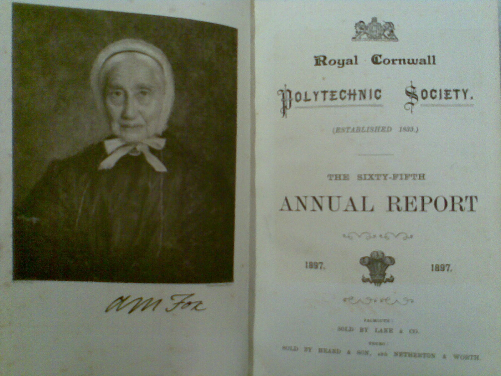 Front opening of the Annual Report of the Royal Cornwall Polytechnic Society for 1897, showing a portrait of Anna Maria Fox (1817-1897), as the Frontispiece. The volume contains her obituary.